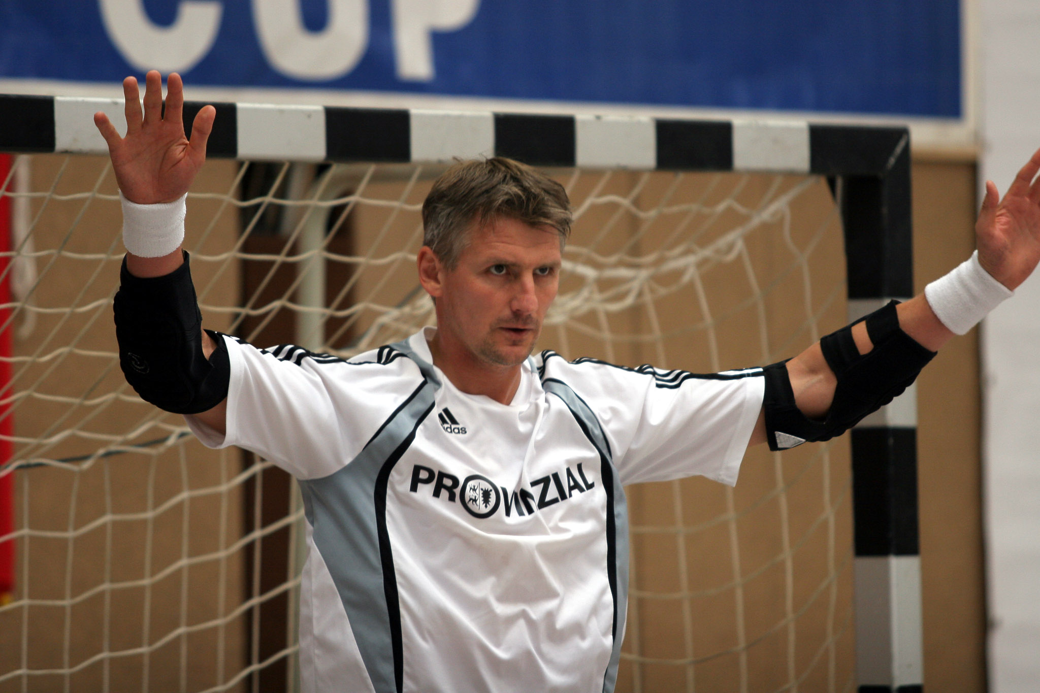 Peter Gentzel, the Swedish handball goal keeper from THW Kiel, during the Schlecker Cup 2009 in Ehingen (Germany)